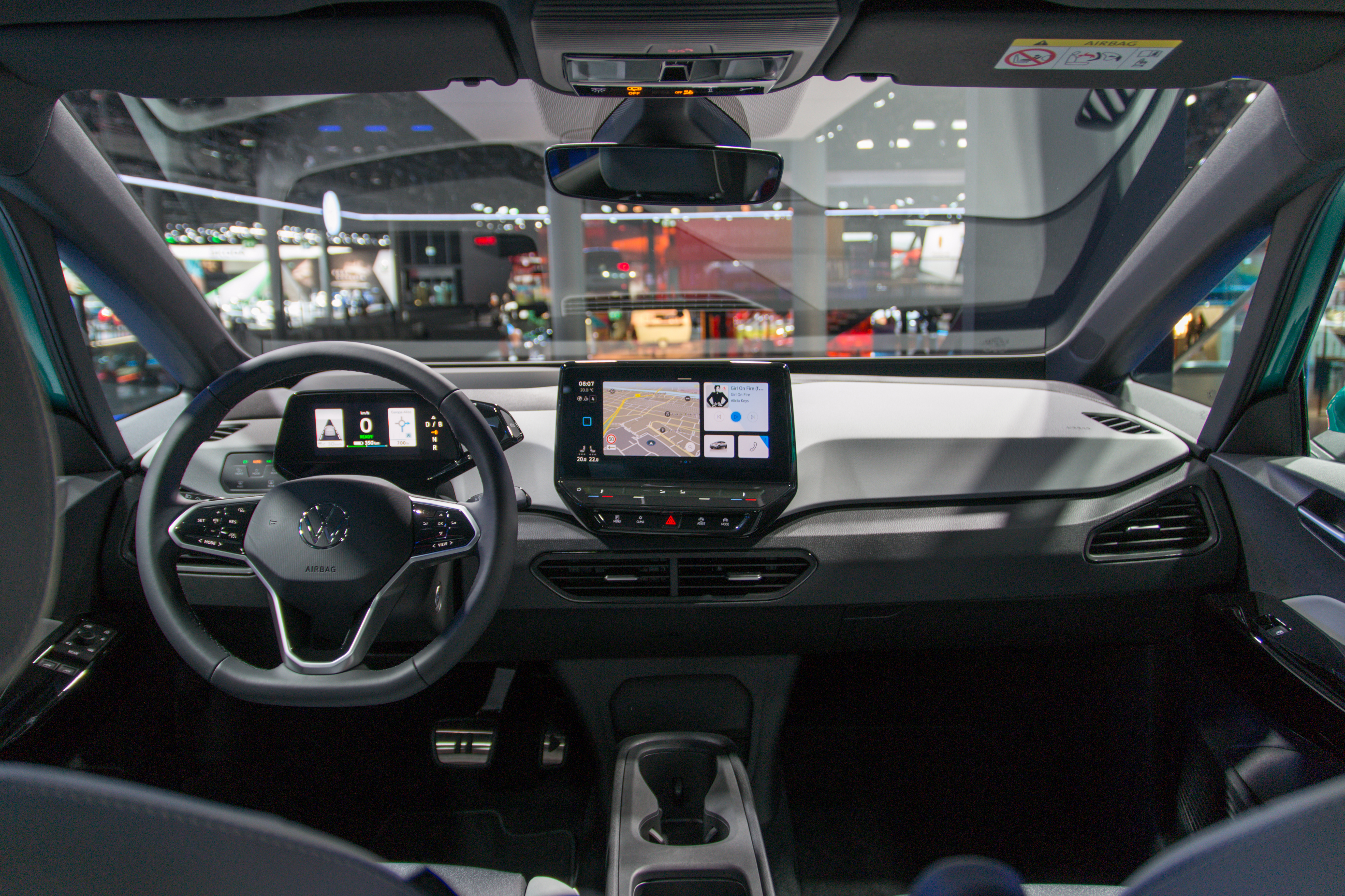 VW ID.3